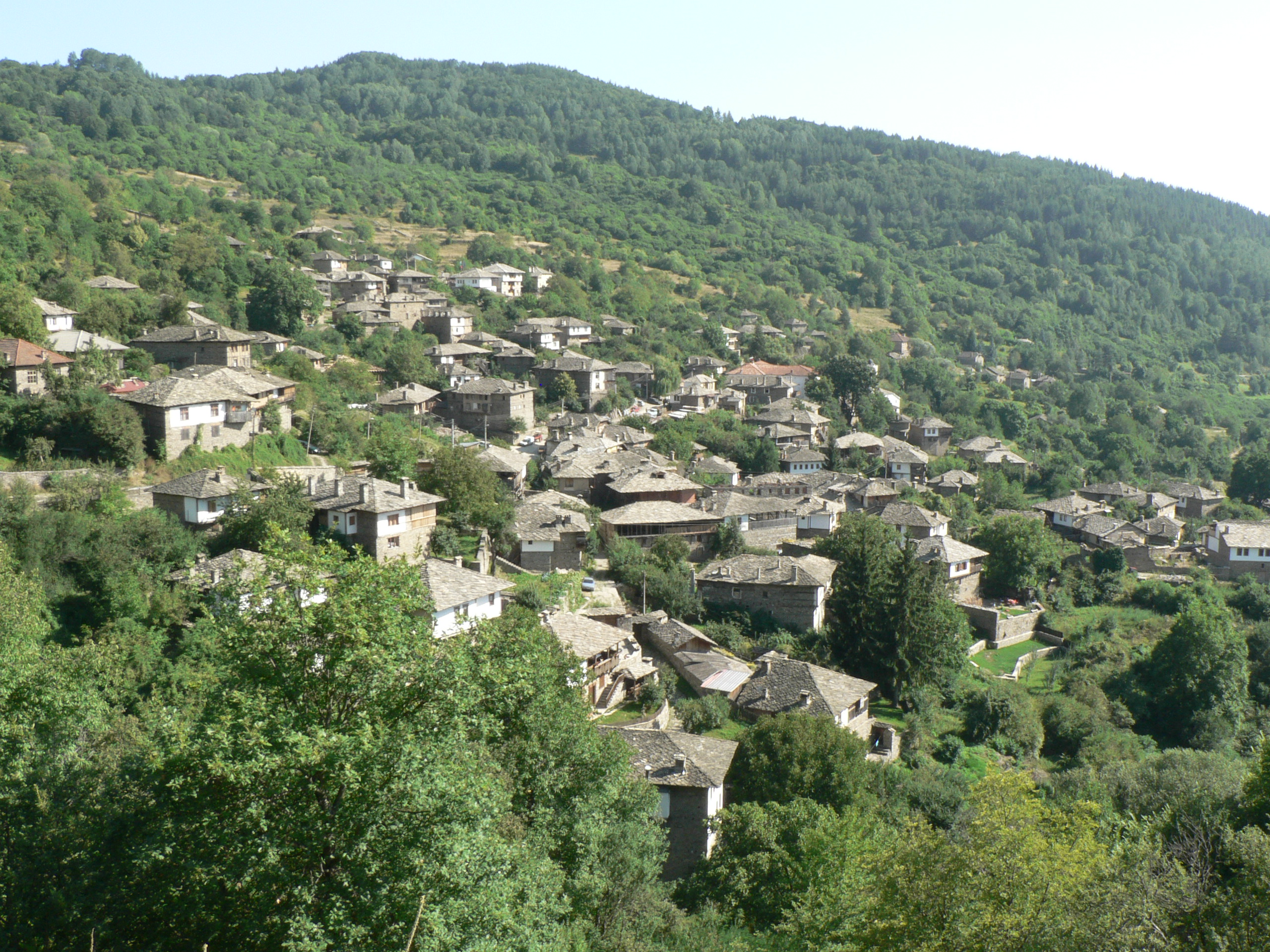 Kovachevica, Bulgaria - general view